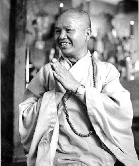 Zen Master and scholar who founded the International Buddhist Meditation Center in Los Angeles